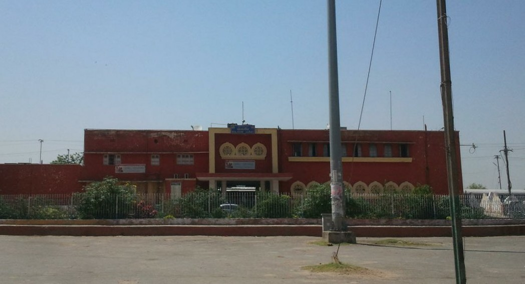 view of Rajgir station building, Rajgir, Bihar, India